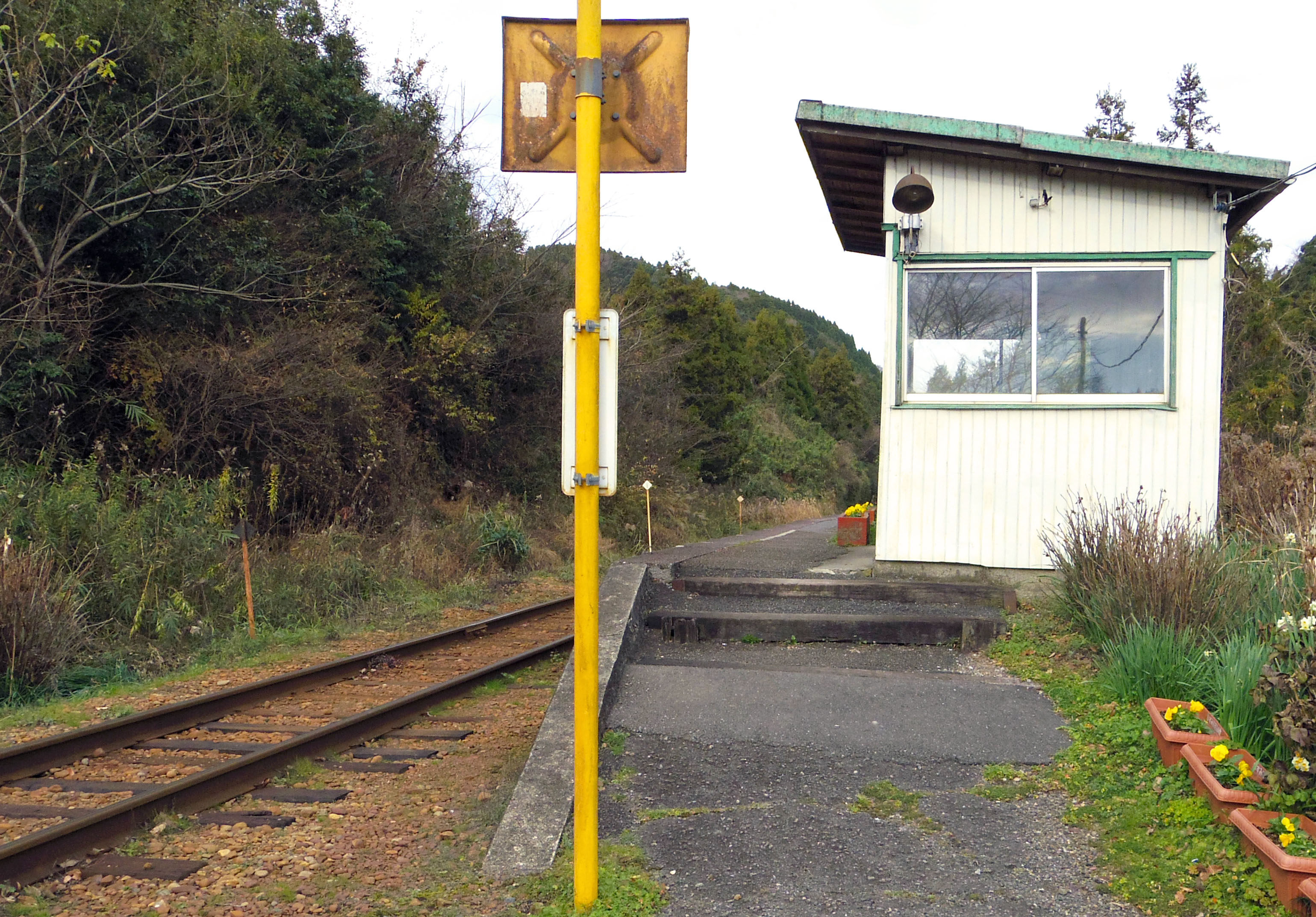 The entrance to Kugahara Station on the Isumi Line in Ōtaki town, Chiba prefecture, Japan